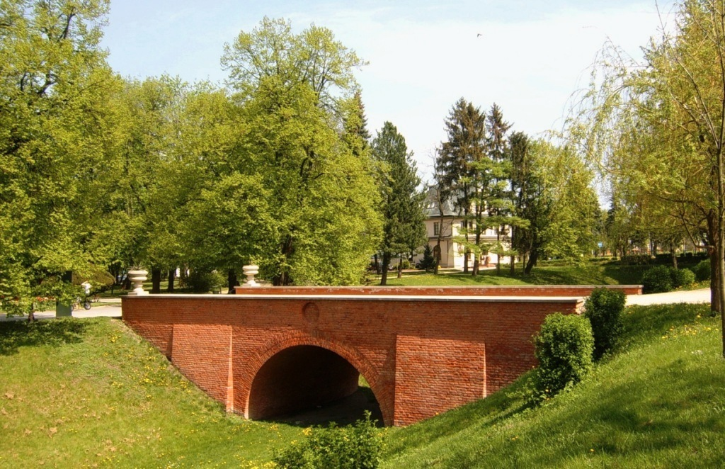 Town Park in Zamość - bridge at the entrance gate